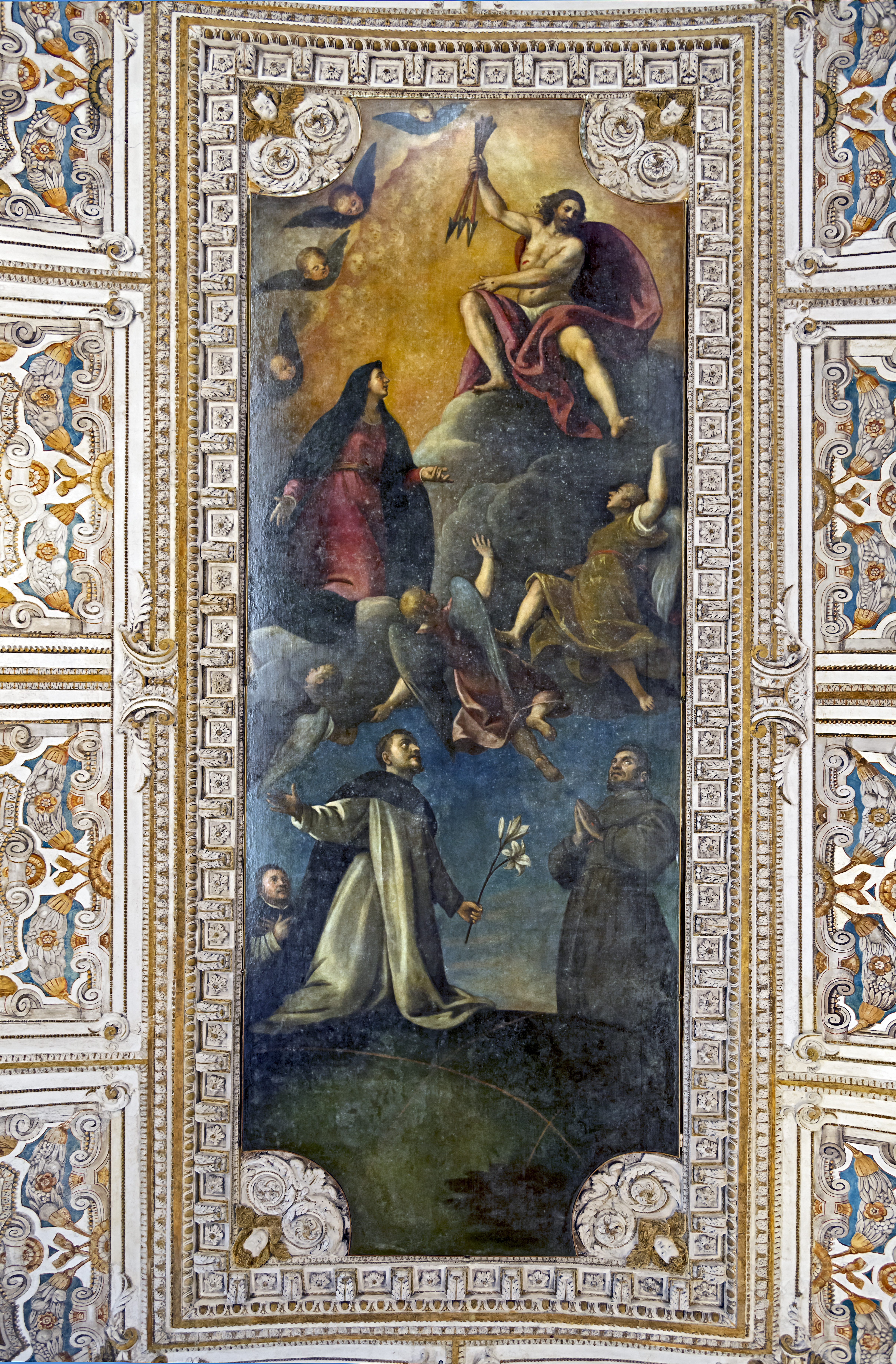 Santi Giovanni e Paolo in Venice. Ceiling - The Virgin on earth sending the two founders Dominic and Francis (av.1611) by Marco Vecellio.